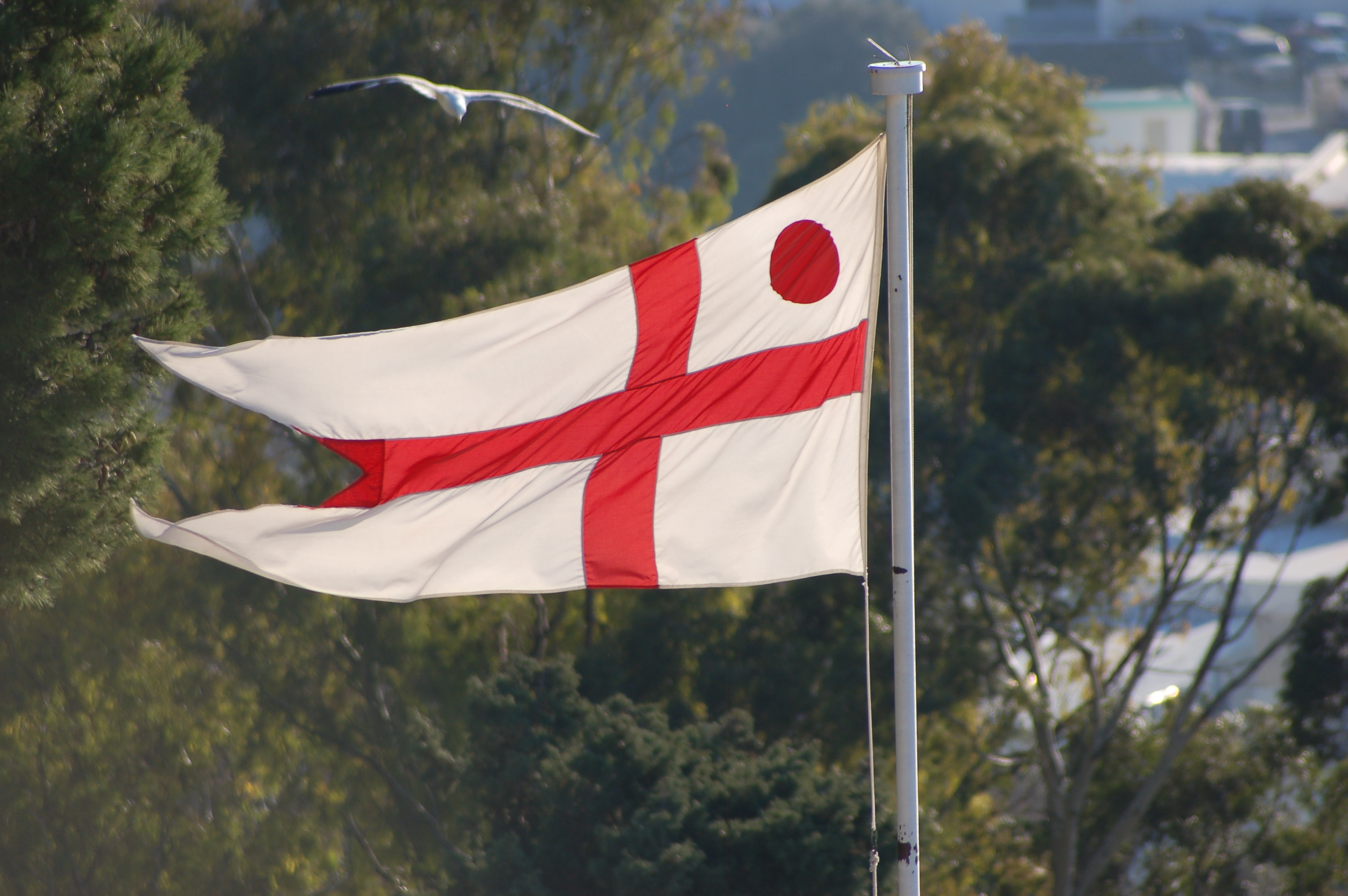 Rank pennant of a Royal Navy Commodore seen flying at Gibraltar